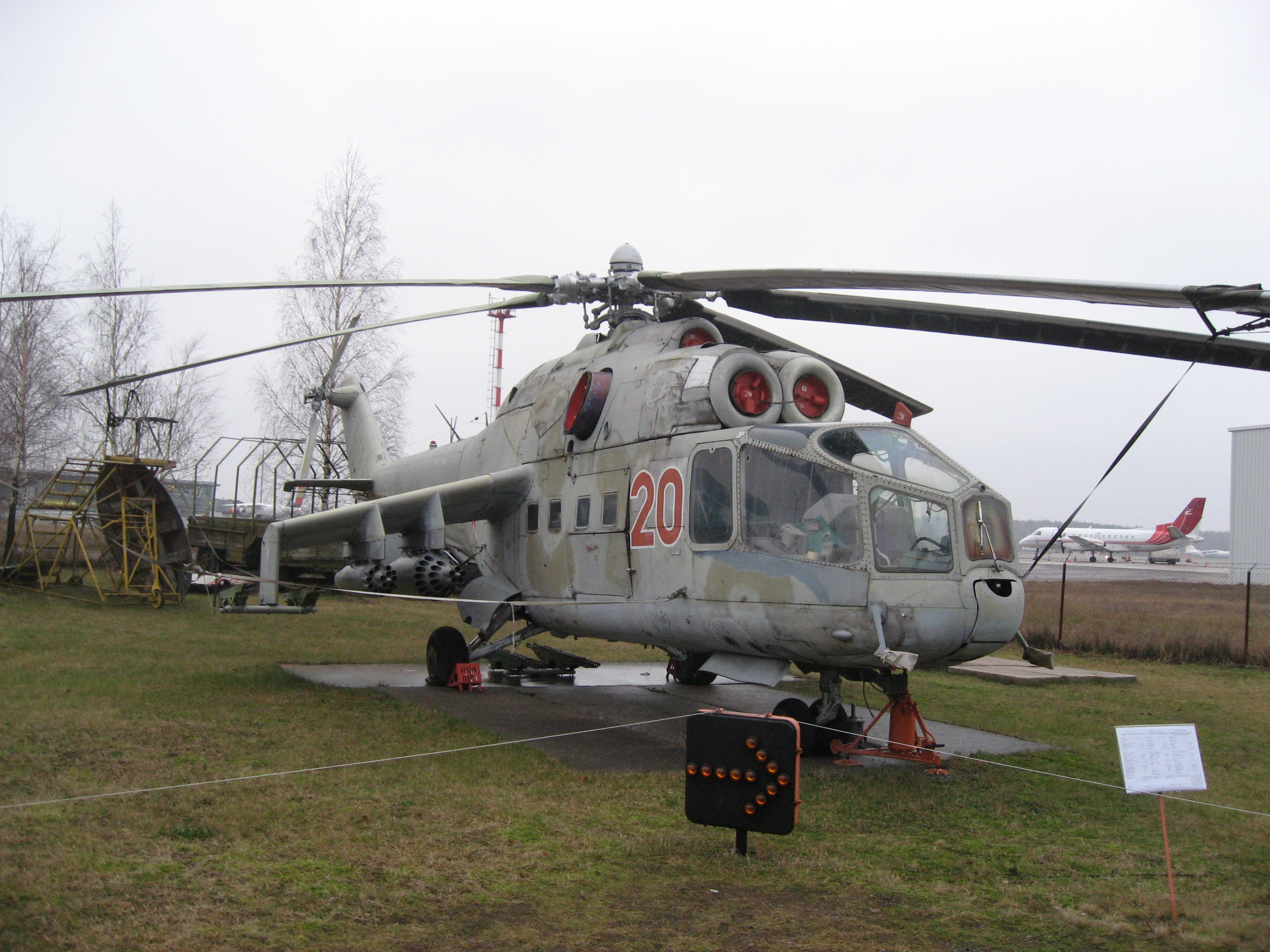 Mil Mi-24A (Nato codename "Hind B") attack helicopter at Riga airport aviation museum.